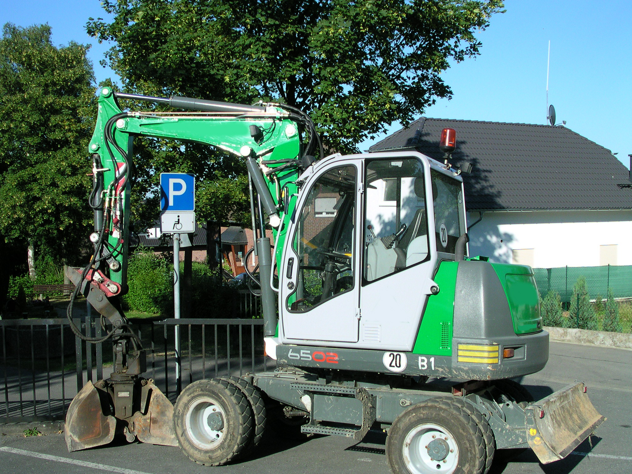 Neuson 6502 excavator